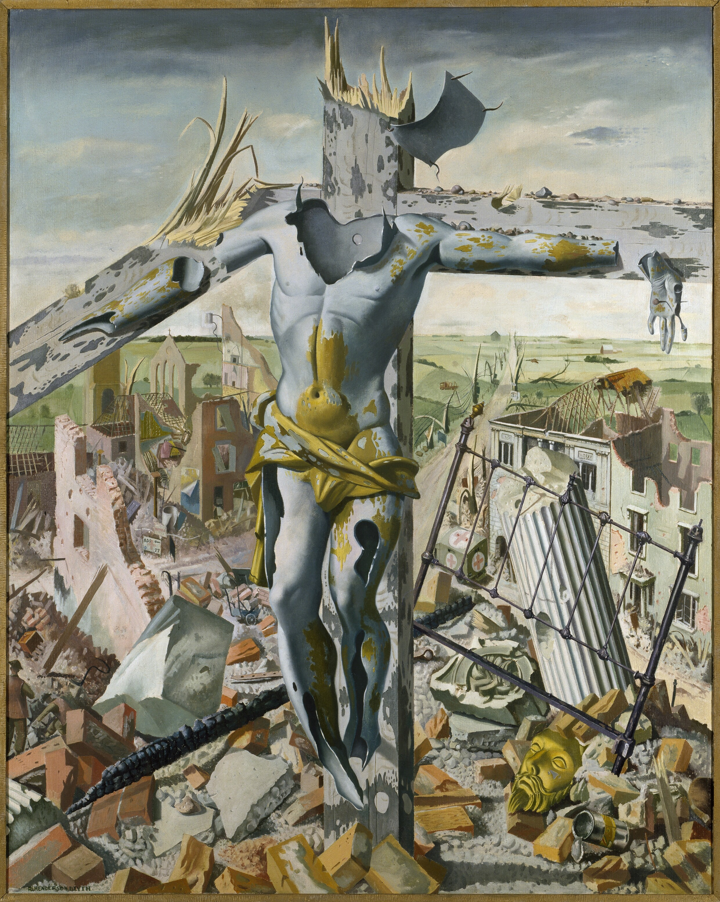 In the Image of Man, 1947 image: A view from an elevated position overlooking a bombed town and green fields beyond. The central motif is of a shattered Calvary, the figure of a hollow Christ is broken and headless and surrounded by debris. A field ambulance is parked close to the ruins.